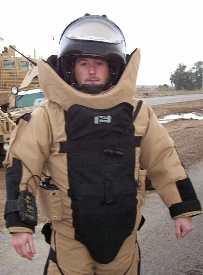 Staff Sgt. Howie Loughran, 31st CES EOD team leader, wears the bomb suit while deployed. The bomb suit protects EOD members when they are close to IEDs.